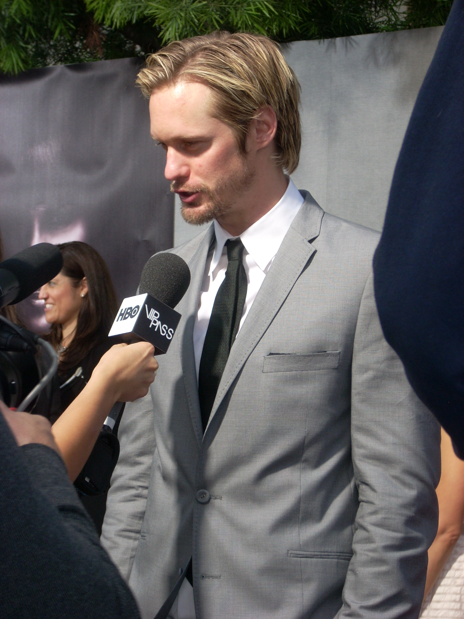 Alexander Skarsgard at the "True Blood" Season Two Premiere Party - Paramount Theater, Paramount Studios, Hollywood, Calif. - June 9, 2009